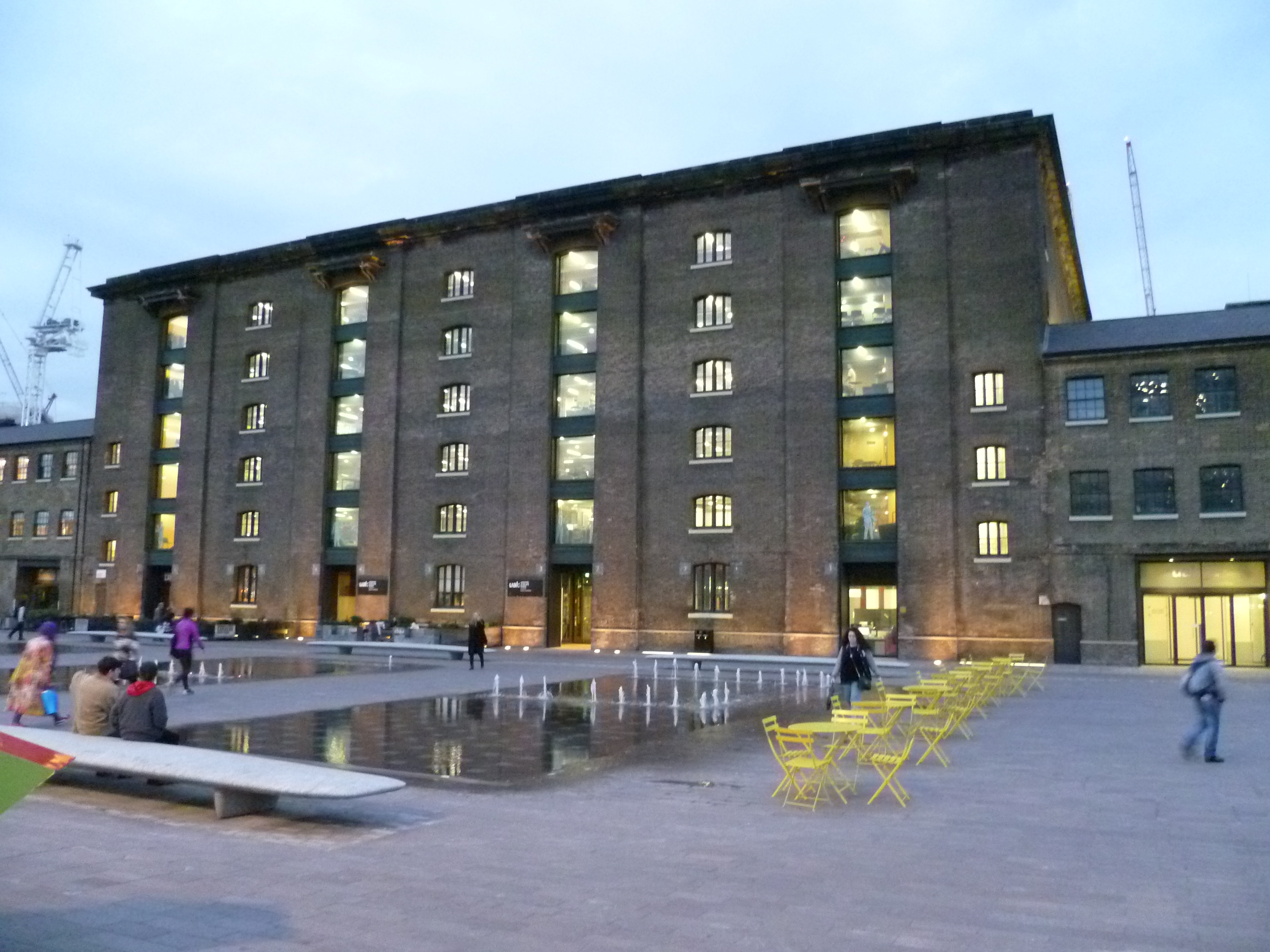 Granary Square, King's Cross.